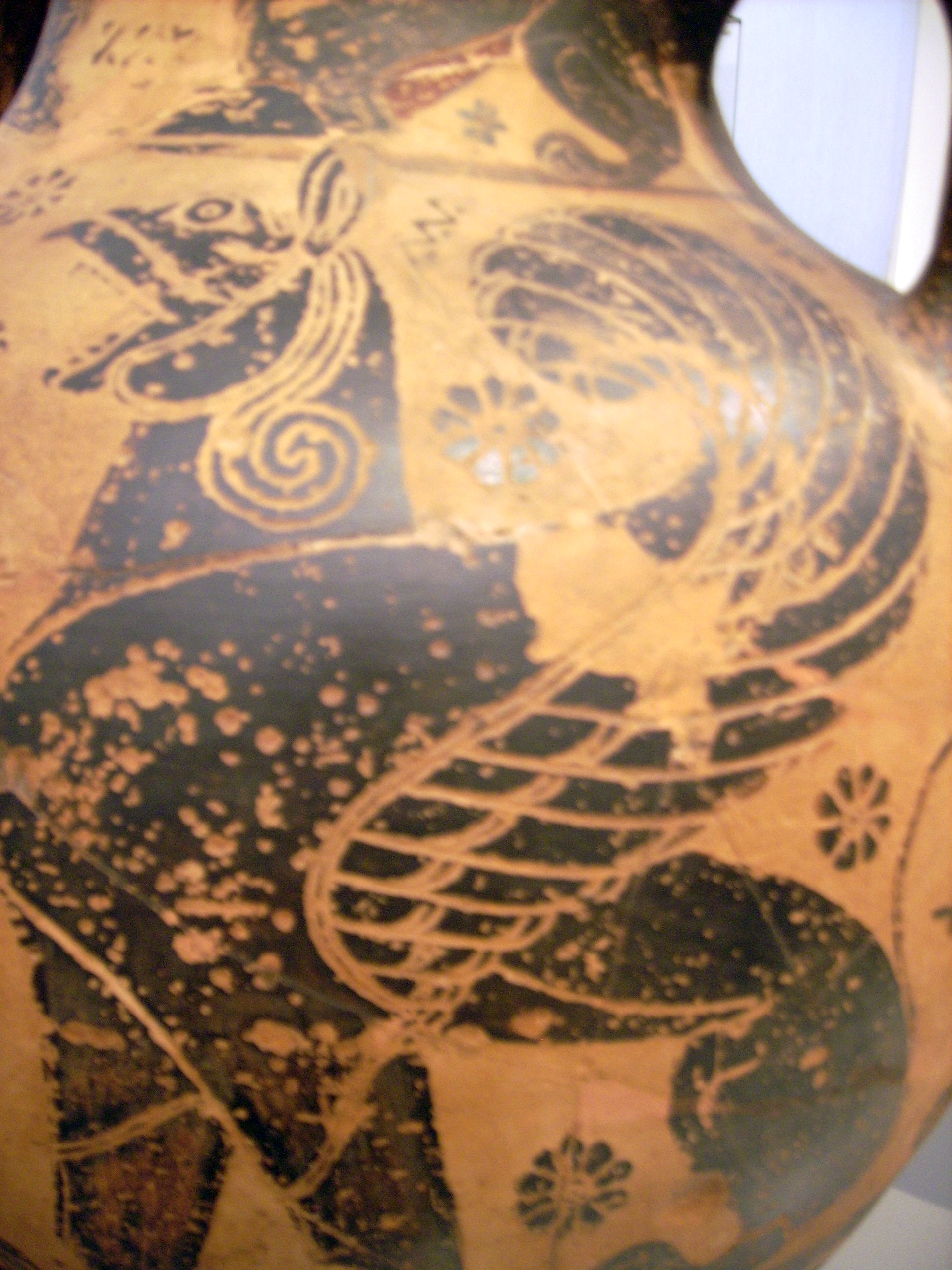 attic Amphora of the Nessos-Painter, ca. 610-600 B.C., Pair of Griffenbirds at the Side of a Palmettes-tree with Owl, on the Neck a pair of Panthers